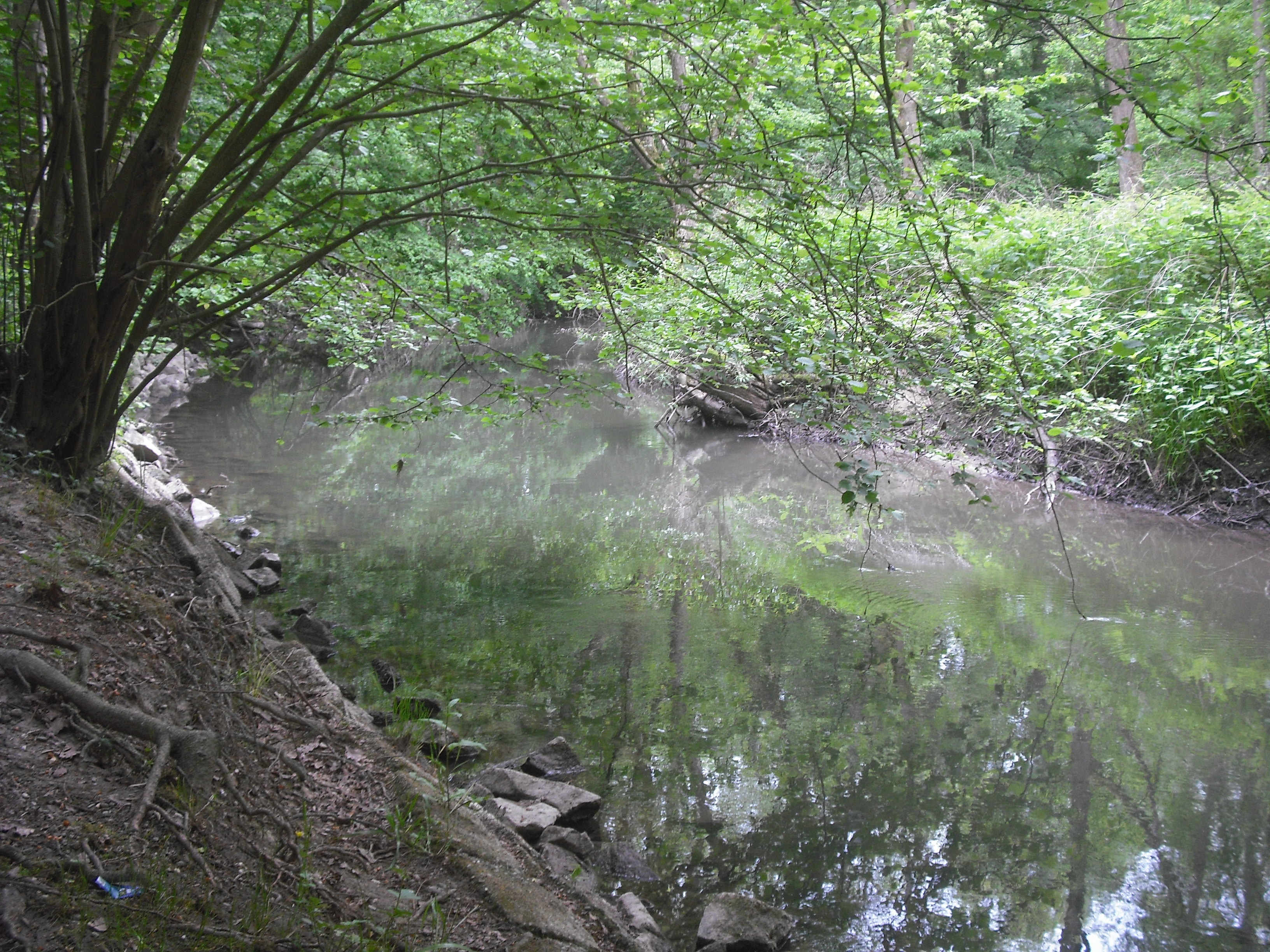 Le Schiffwasser dans l'Illwald, Sélestat, France.